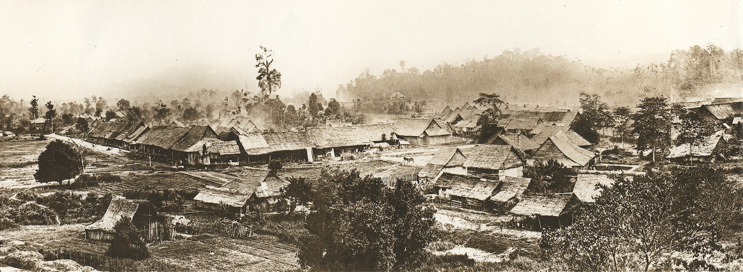 Section of a panoramic view of Kuala Lumpur ca. 1884, image taken from A Vision of the Past – A history of early photography in Singapore and Malaya, The photographs of G.R.Lambert & Co., 1880-1910, John Falconer. The Padang to the left.